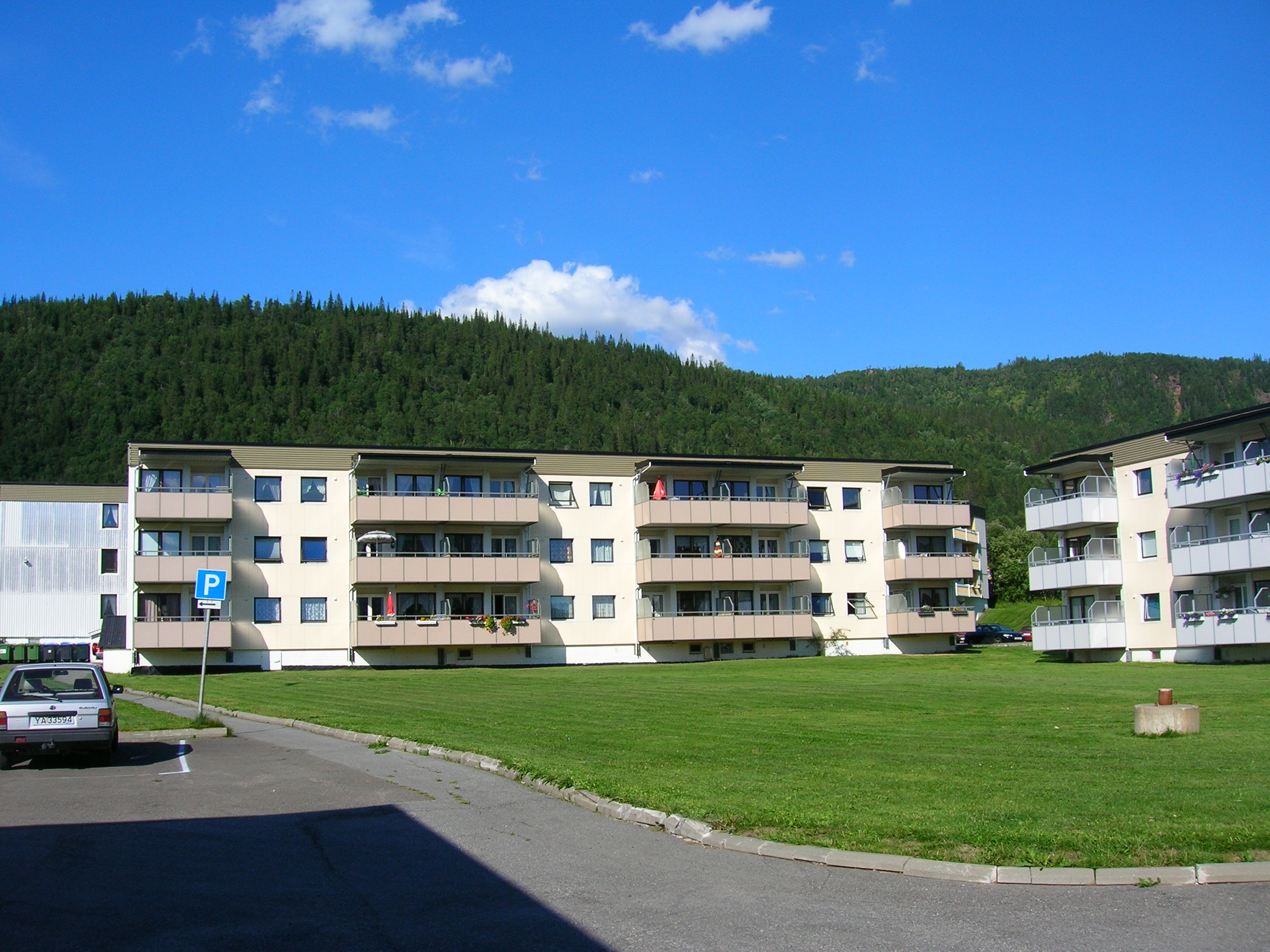 Ormenget housing cooperative on Selfors, north of Mo i Rana, Rana municipality, county of Nordland, Norway, Photo 8 August, 2007 with a Nikon Coolpix 5600 5,1 Megapixel camera.